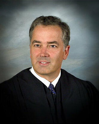 U.S. District Court Official Government Portrait of Judge John E. Jones III Image was obtained from Dickinson College's website (found at After contacting the webmaster, he informed me via e-mail that the image is the official portrait created by the federal government, and he also sent me a fuller, non-cropped image, which is uploaded here. As a work of the federal government, this image is public domain. -- Shadowlink1014